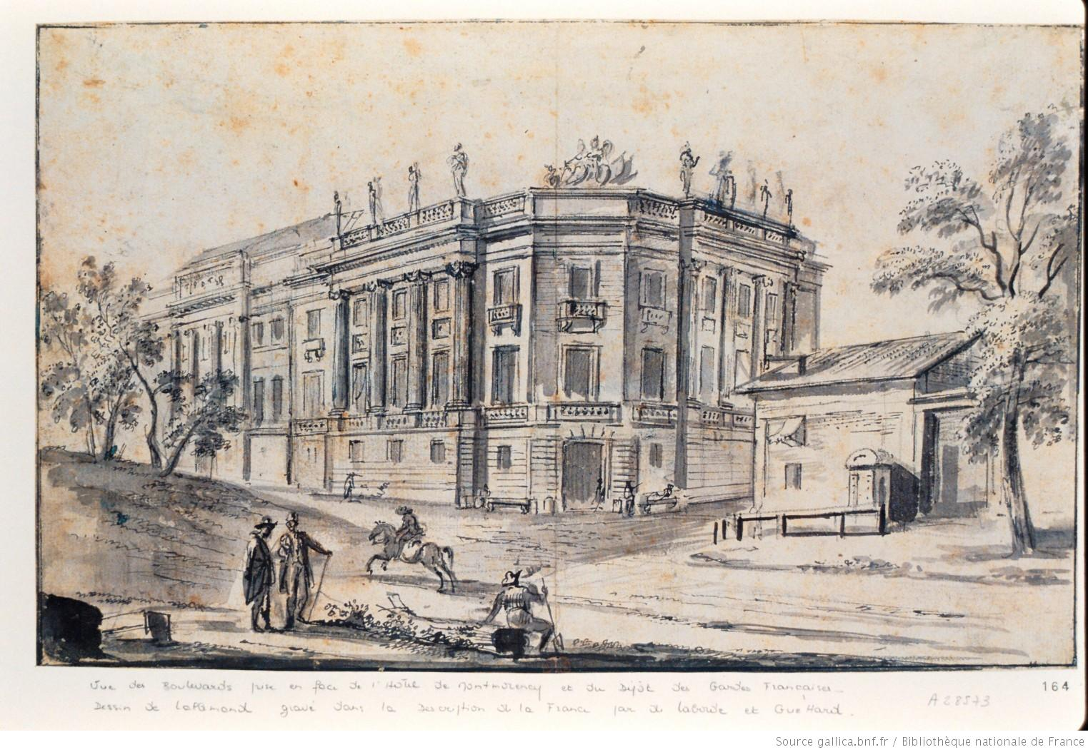 The mansion of Montmorency and the "depot des gardes francaises" (=french gards barracks) at the junction of the boulevard des Capucines and the rue de la Chaussée-d'Antin.